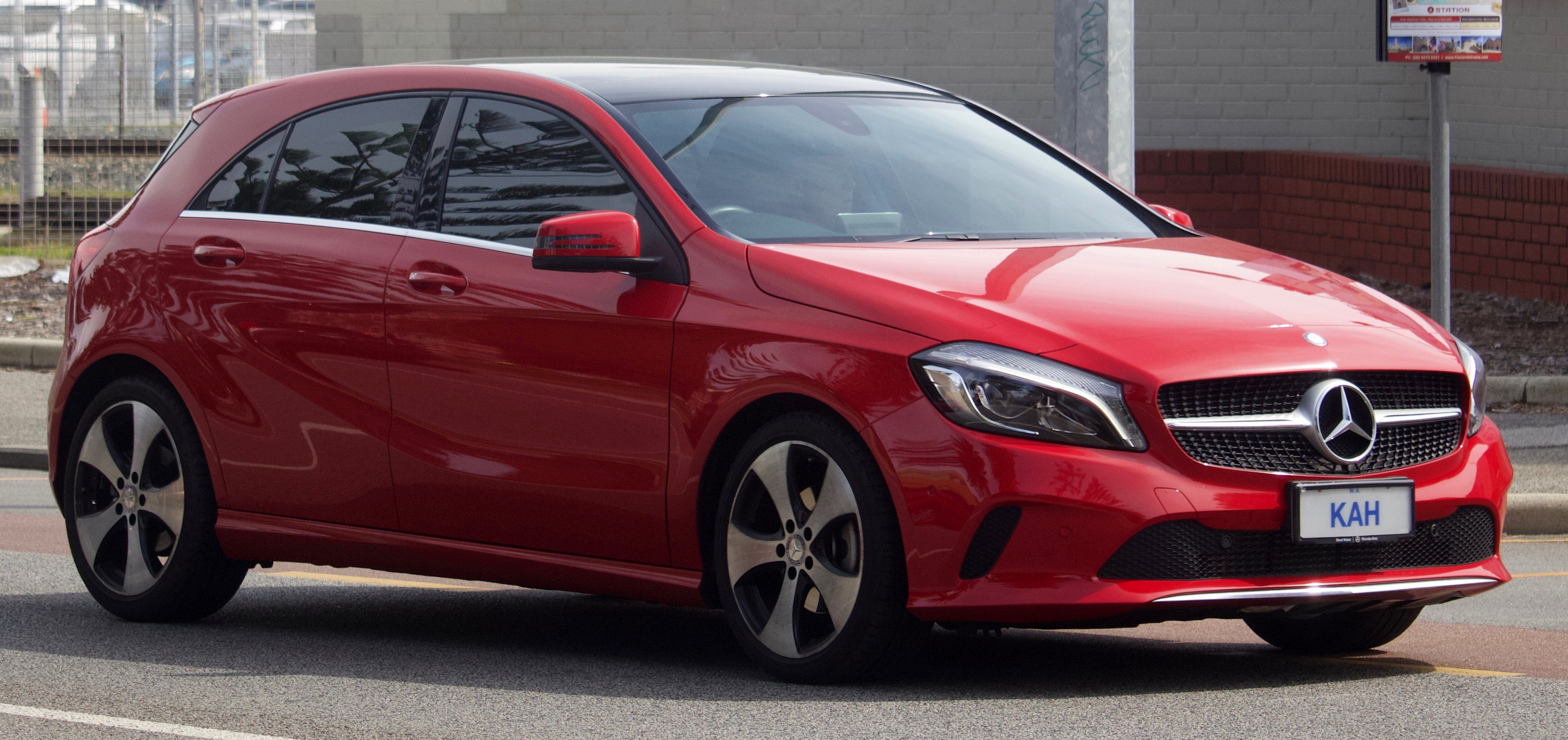 2017 Mercedes-Benz A 200 (W 176) hatchback. Photographed in Fremantle, Western Australia, Australia.